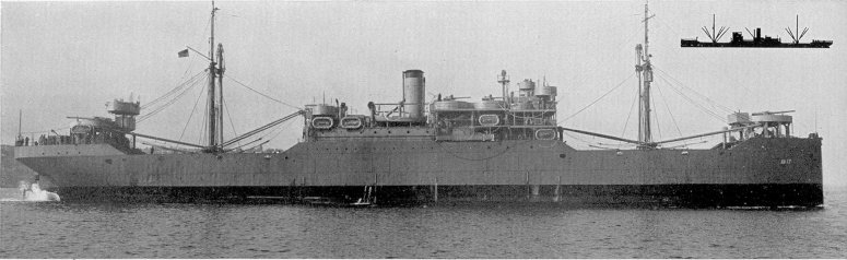 USS Vega (AK-17) underway, 8 September 1942. US Navy photo